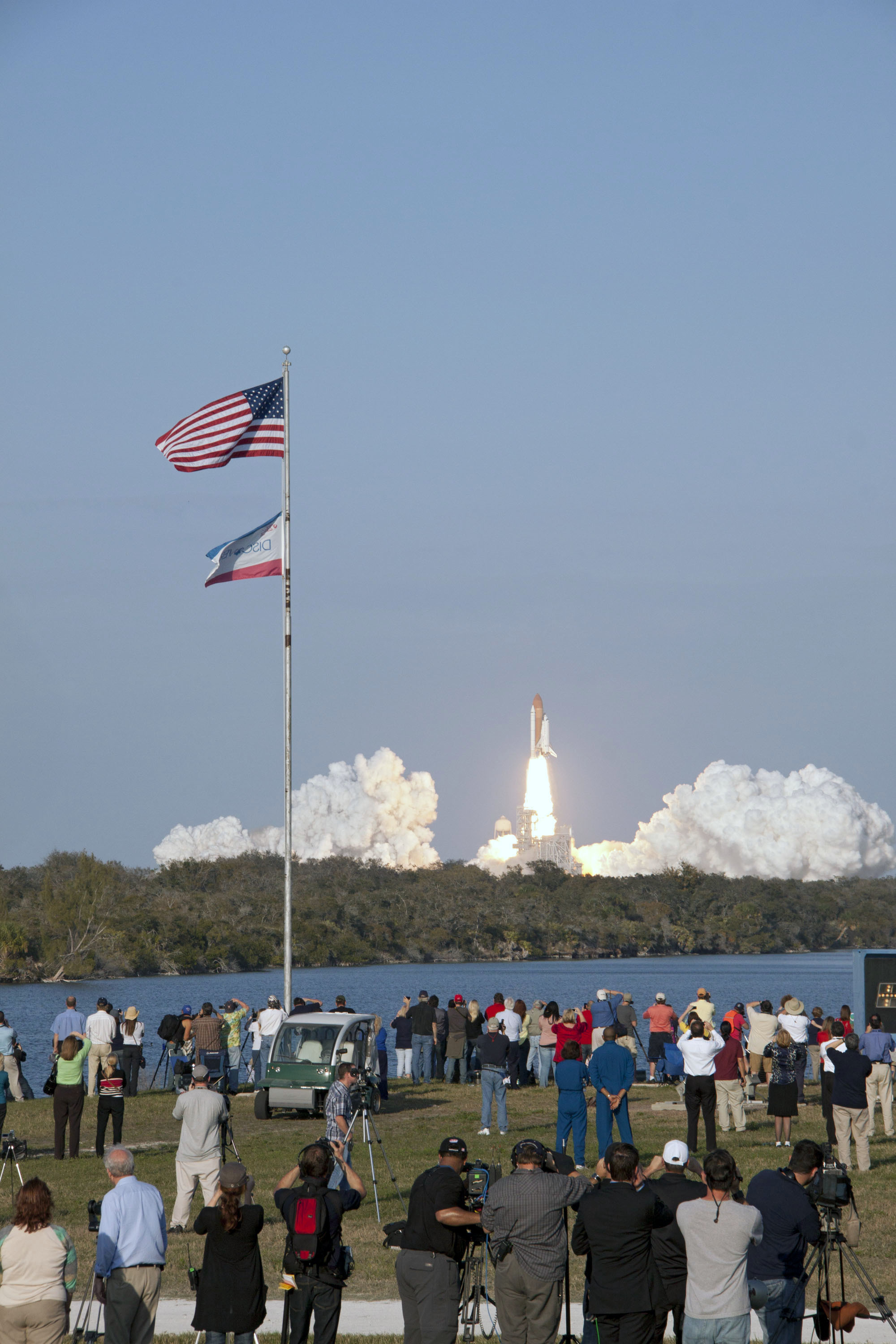 CAPE CANAVERAL, Fla. - Space shuttle Discovery's liftoff from Launch Pad 39A at NASA's Kennedy Space Center in Florida on a picturesque, warm, late February afternoon is witnessed by news media representatives near the countdown clock at the Press Site. Launch of the STS-133 mission was at 4:53 p.m. EST on Feb. 24. Discovery and its six-member crew are on a mission to deliver the Permanent Multipurpose Module, packed with supplies and critical spare parts, as well as Robonaut 2, the dexterous humanoid astronaut helper, to the International Space Station. Discovery is making its 39th mission and is scheduled to be retired following STS-133. This is the 133rd Space Shuttle Program mission and the 35th shuttle voyage to the space station.